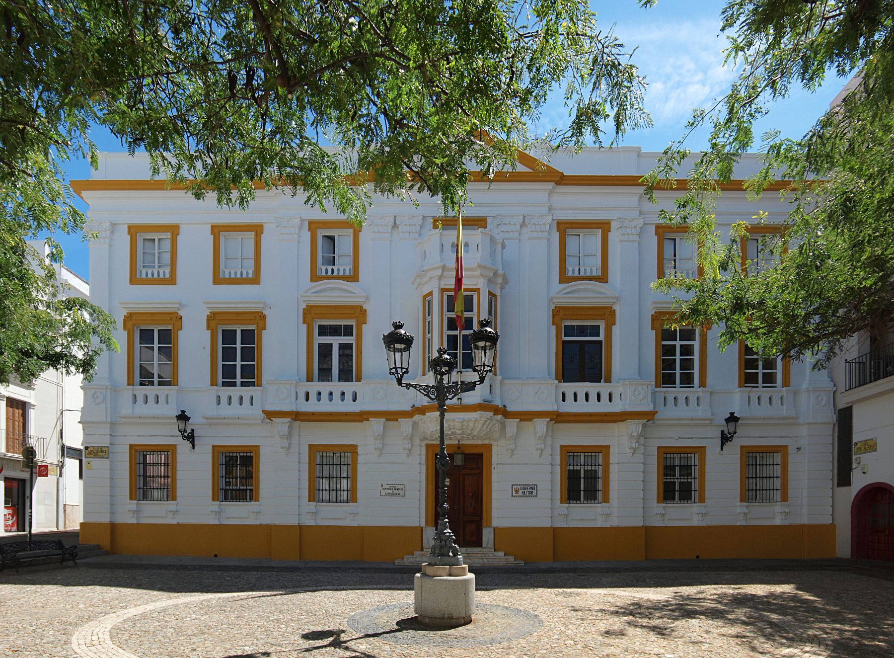 Former Capitania General de Extremadura, in Plaza Lopez de Ayala